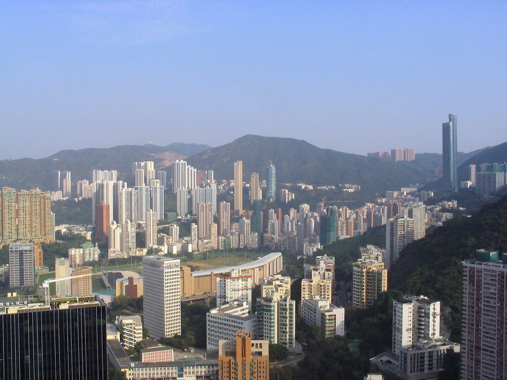 Happy Valley